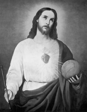 Digital Capture of the image of the picture of Sagrado Corazon de Jesus, comisioned by García Moreno from a CC Book thath is avalible online in free domain in [1]